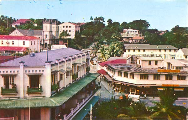 Postcard from Suva, Fiji from late 1940s or early 1950s